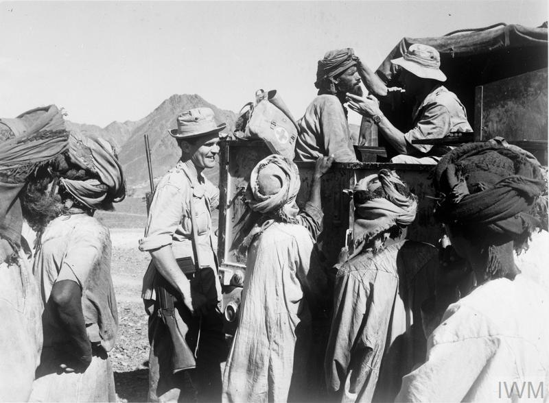 Trooper J Scott, serving with 1 Patrol, 3 Troop, 'A' Squadron, 22 SAS Regiment, gives medical treatment to the villagers of Falige, living in the remote Yanqul Plain of Oman.